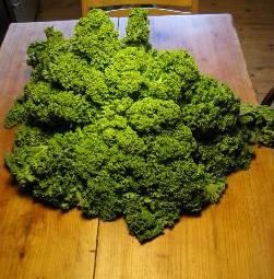 Kale